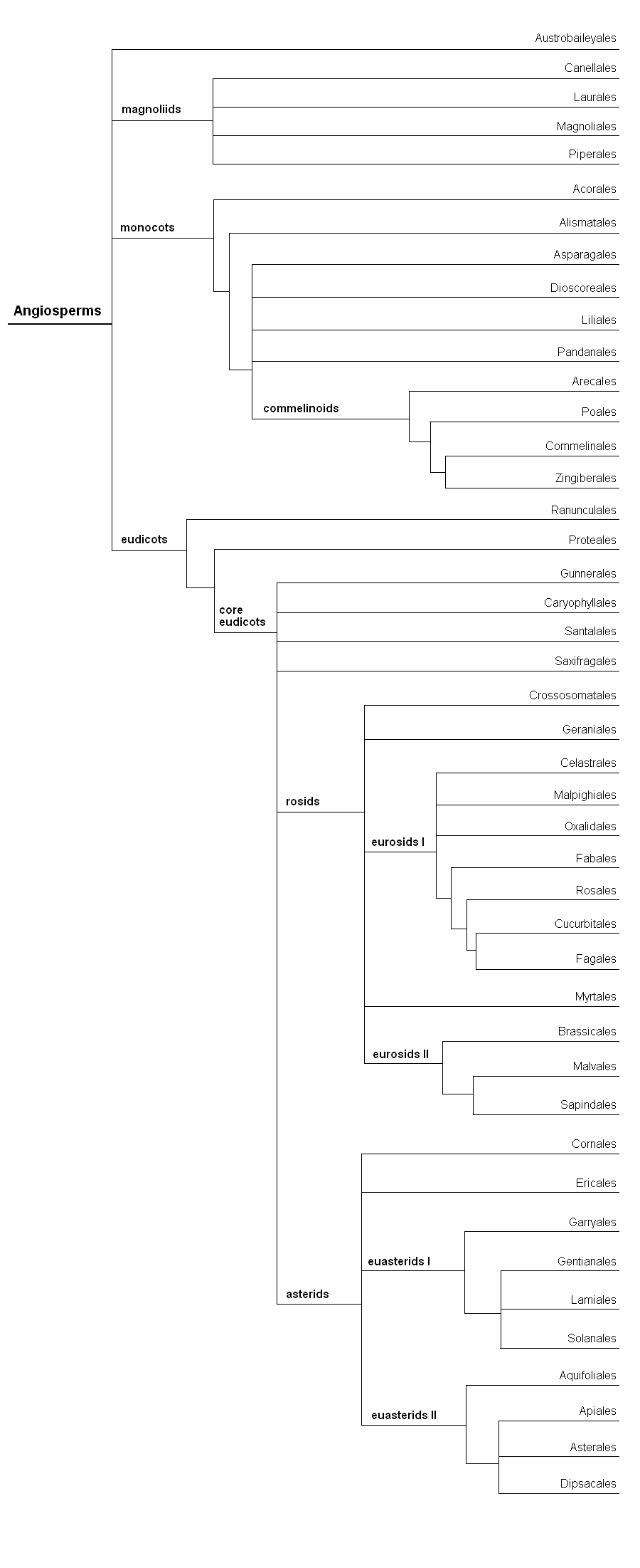 Orders tree of flowering plants according to APG II system. (English diagram)